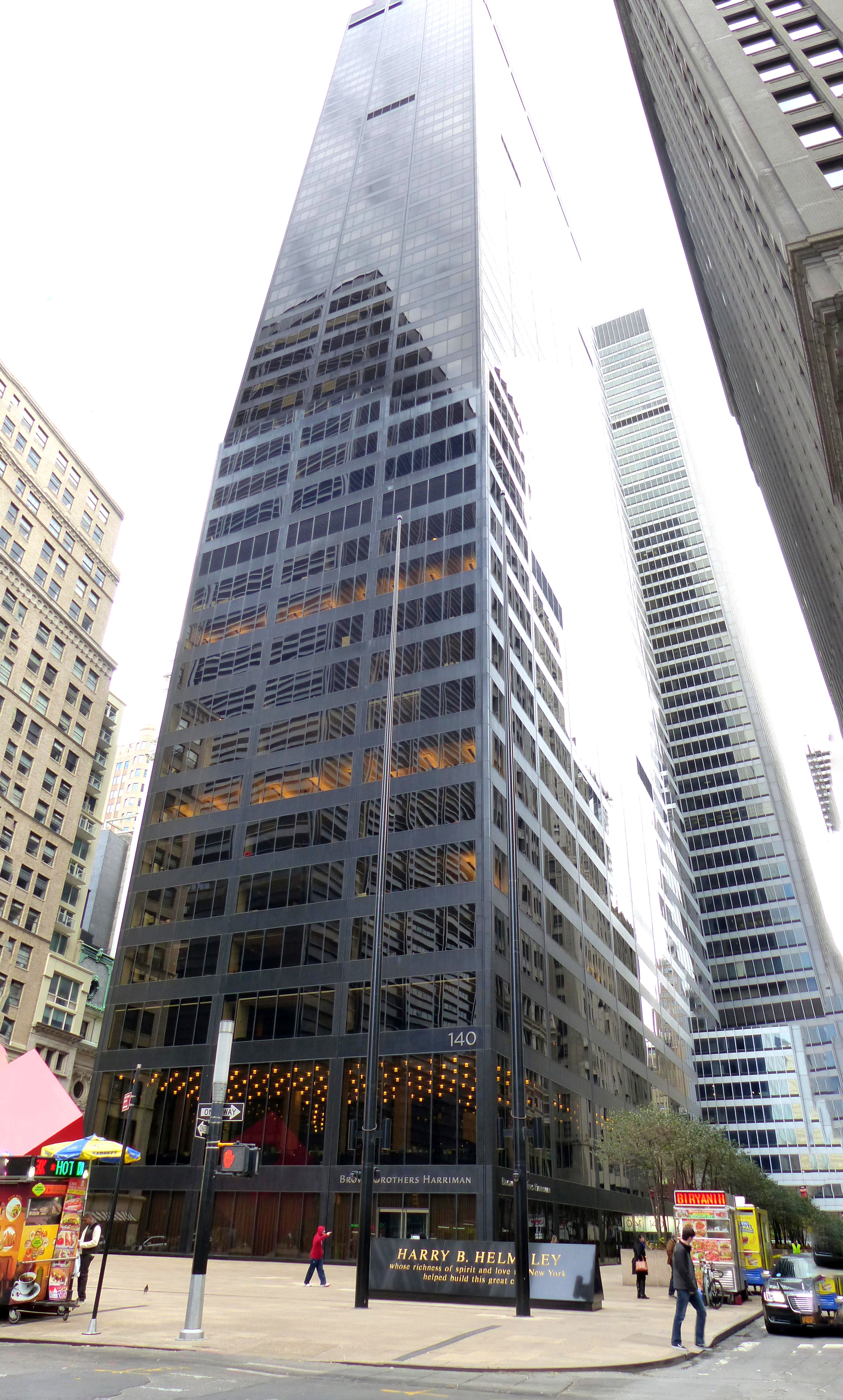 Financial District, New York, NY, USA